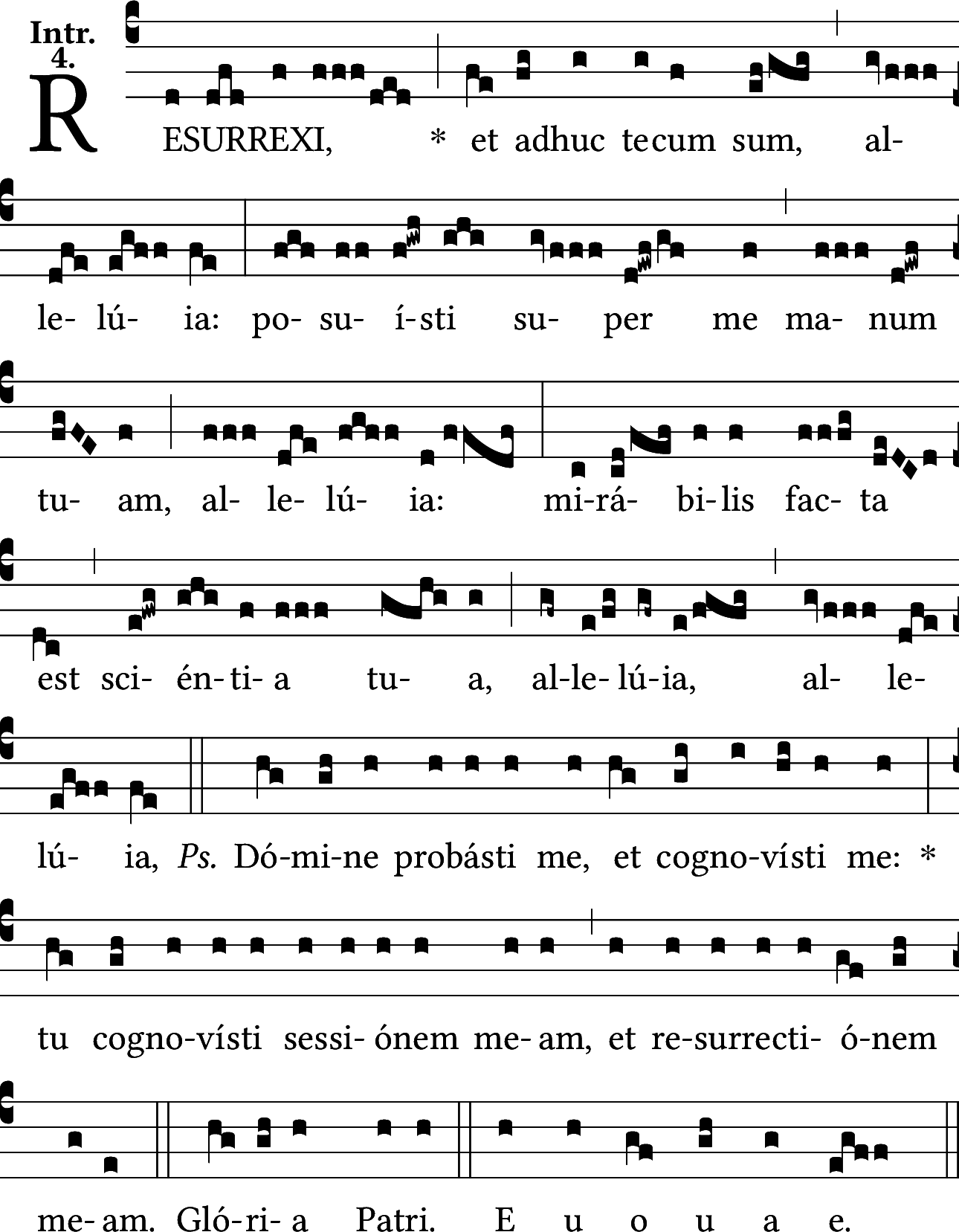 name:Resurrexi; office-part:Introitus; mode:4; book:Graduale Romanum, 1908, p. 202; transcriber:Andrew Hinkley; %% (c4) RE(d)SUR(dfd)RE(f)XI,(fff/ded) *(;) et(fe) ad(fg)huc(g) te(g)cum(f) sum,(ef/gfg) (,) al(gvfff)le(dfe)lú(egff)(fe) (:) po(fgf)su(ff)í(f!gwh)sti(ghg) su(gvfff)per(d!ewf/gf) me(f) (,) ma(fff)num(d!ewf) tu(fgFE)am,(f) (;) al(fff)le(dfe)lú(fgff)(d//ffdf) (:) mi(c)rá(cd/fef)bi(f)lis(f) fac(fffg)ta(deDCd) est(dc) (,) sci(e!fwg)én(ghg)ti(f)a(fff) tu(gfhg)a,(g) (;) al(gf~)le(e/fg)lú(gf~)ia,(e/fgfg) (,) al(gvfff)le(dfe)lú(egff)ia,(fe) Ps.(::) Dó(hg)mi(gh)ne(h) pro(h)bá(h)sti(h) me,(h) et(hg) co(gi)gno(i)ví(hi)sti(h) me:(h) *(:) tu(hg) co(gh)gno(h)ví(h)sti(h) ses(h)si(h)ó(h)nem(h) me(h)am,(h) (,) et(h) re(h)sur(h)rec(h)ti(h)ó(gf)nem(gh) me(g)am.(e) (::) Gló(hg)ri(gh)a(h) Pa(h)tri.(h) (::) E(h) u(h) o(gf) u(gh) a(g) e.(egff) (::)